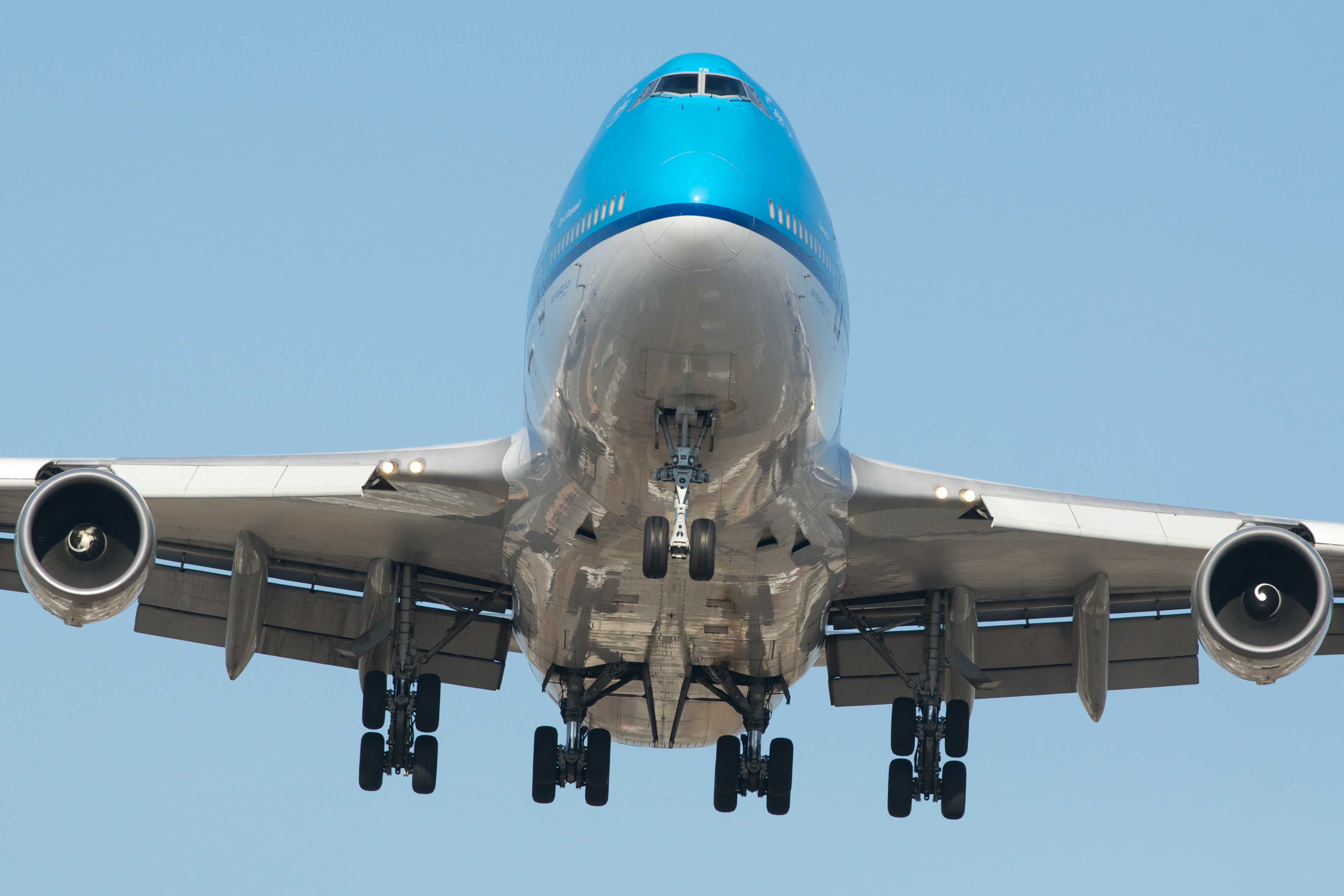 Runway 23, Toronto.